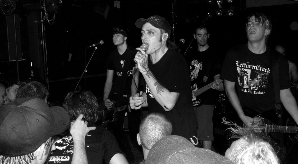 Leftover Crack live in Cologne, 2006.